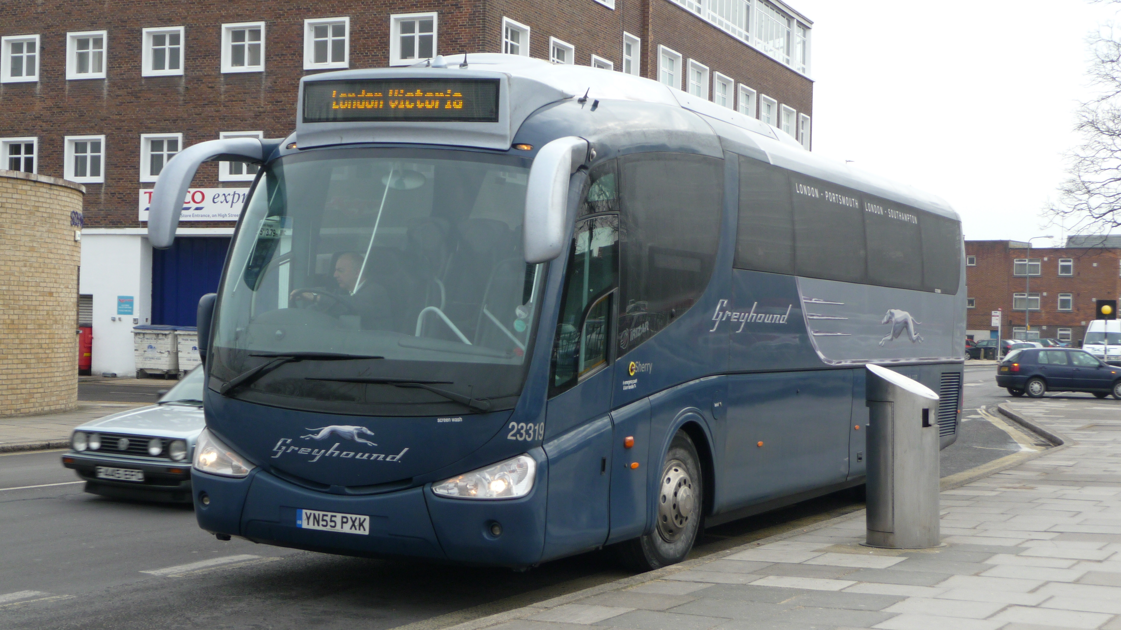 Greyhound UK 23319 Sherry (YN55 PXK), a Scania K114EB/Irizar PB, pulling out of the layby in Castle Way, Southampton, after loading passengers, departing to London.